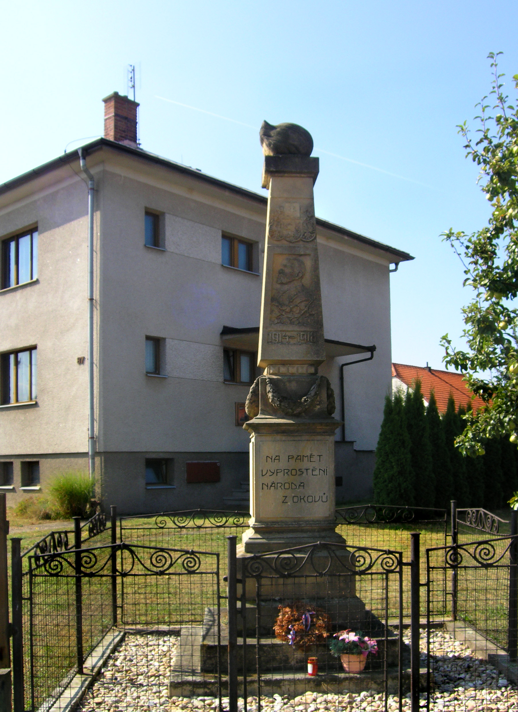 World War I memorial in Stěžírky, part of Stěžery village, Czech Republic